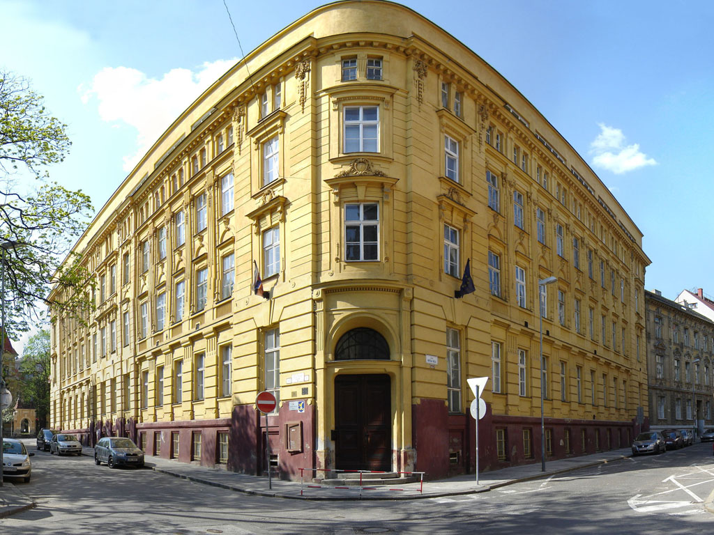 Bratislava conservatory